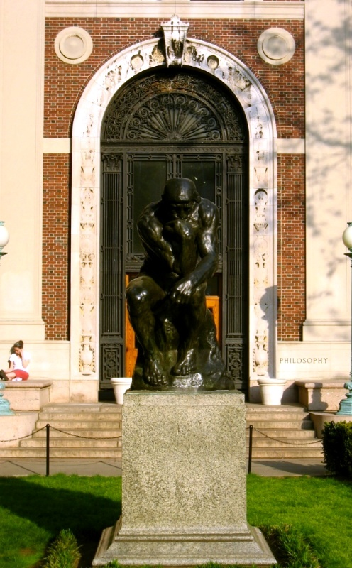 The Thinker sculpture in front of Philosophy Hall at Columbia University in New York City. Photograph by C. Szabla